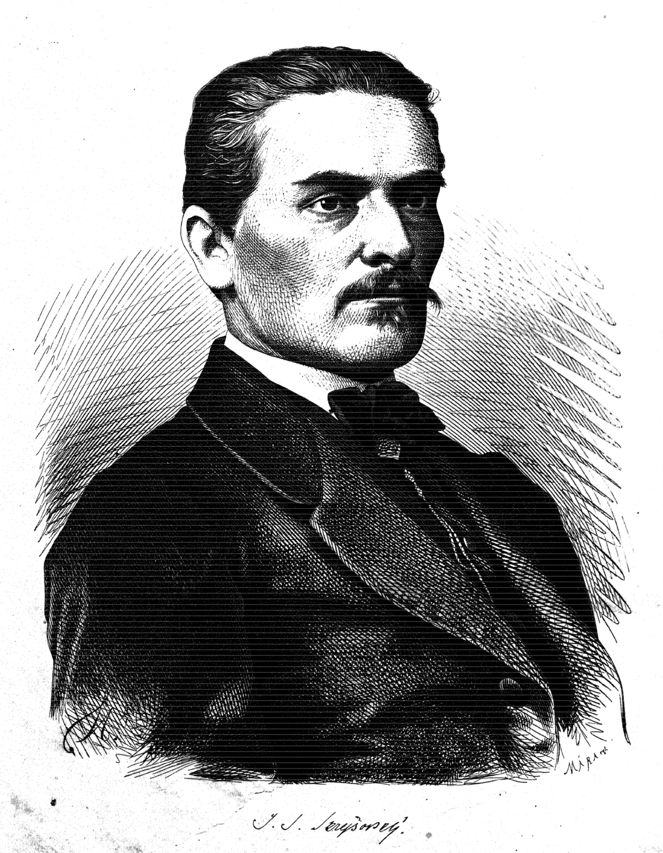 Portrait of Jan Stanislav Skrejšovský (1831-1883), Czech journalist and politician.